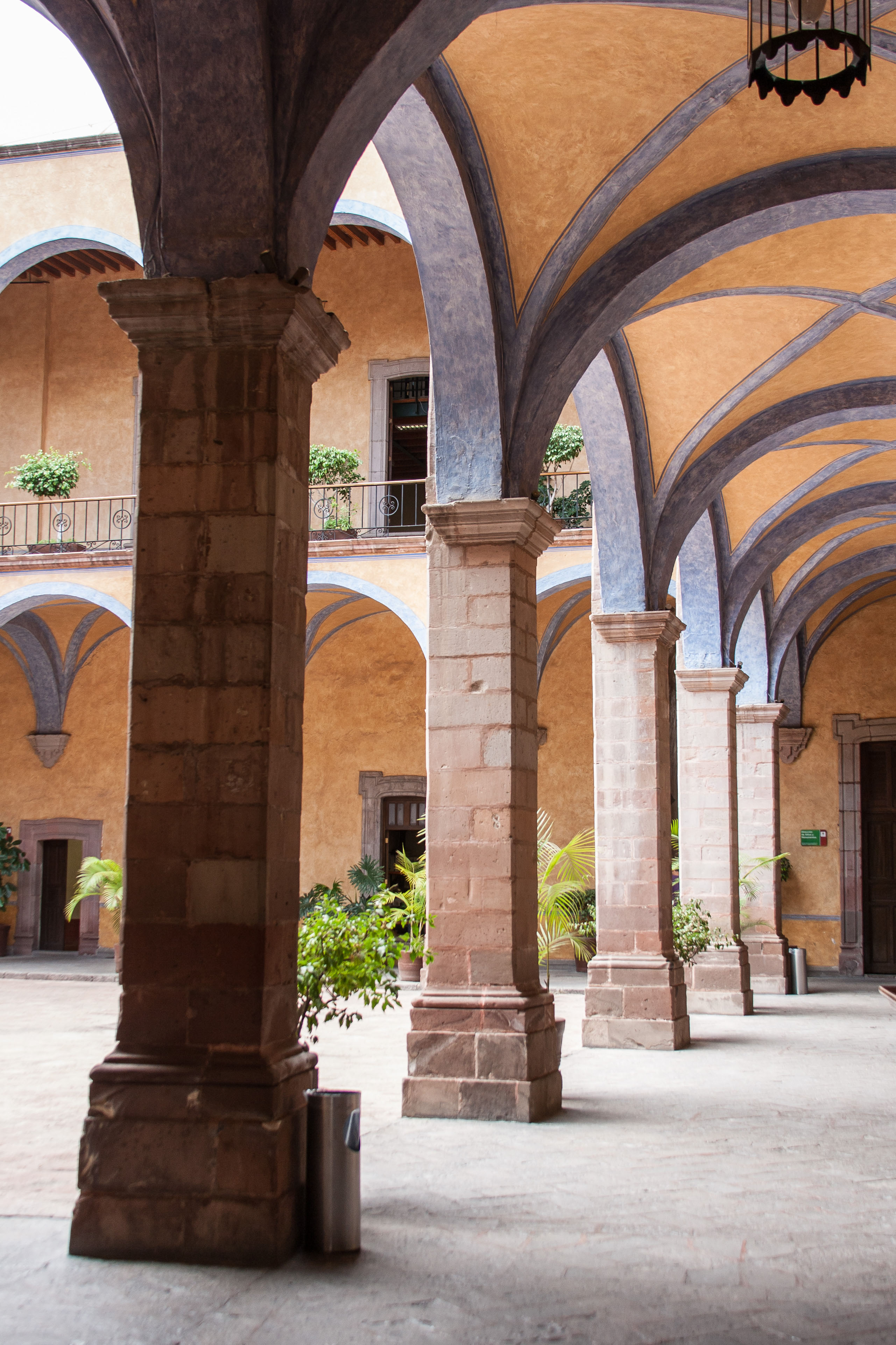 Cloisters of San Felipe Neri (Cathedral of Querétaro) — in the Centro Histórico of Santiago de Querétaro, Municipality of Querétaro, Querétaro state, central México.